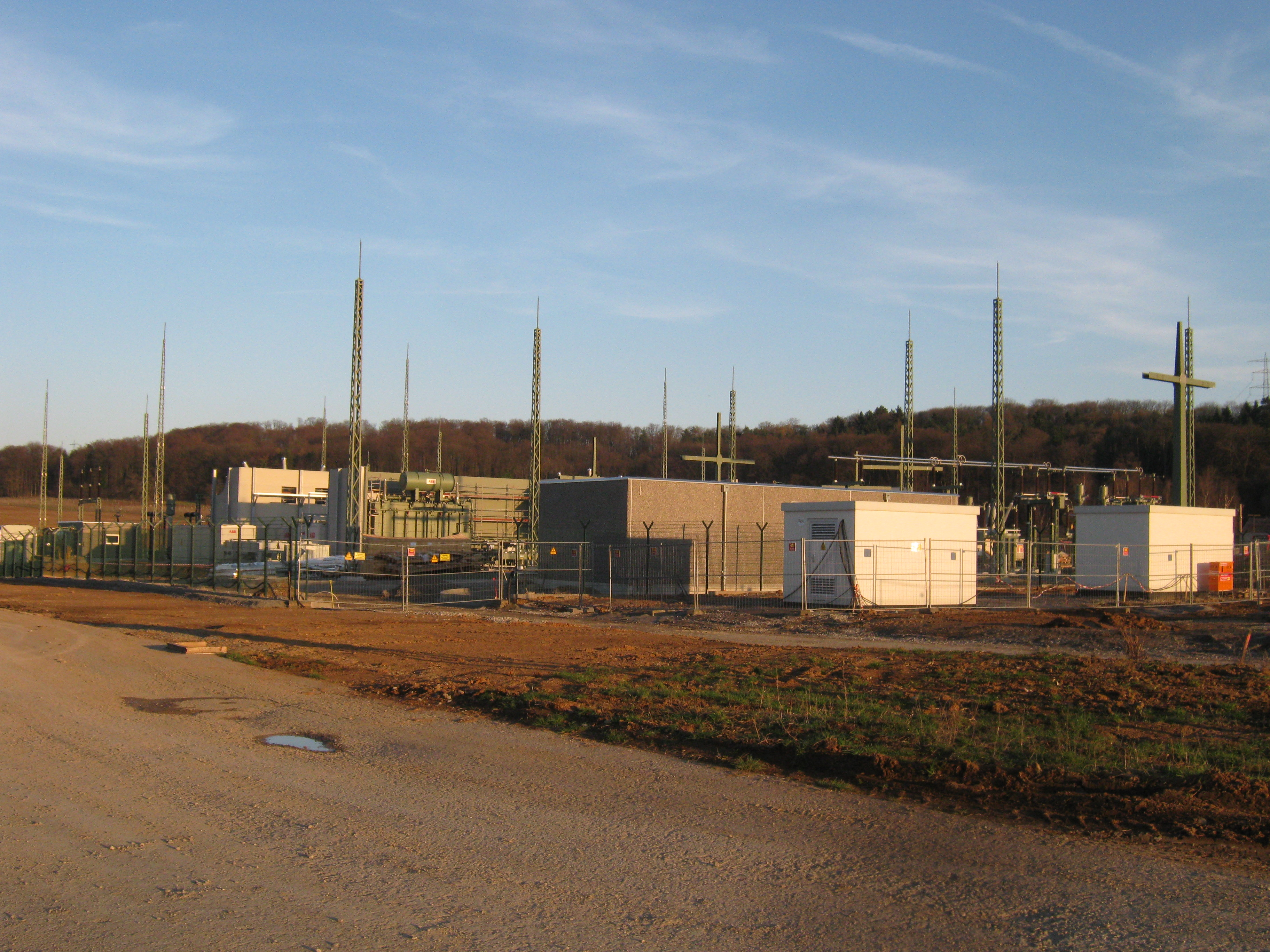 Traction current static inverter station near Neckarwestheim Nuclear Power Station under construction